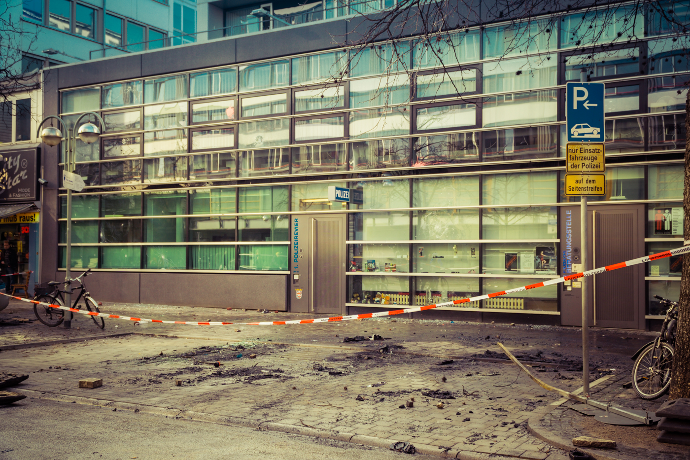 Damage done to Police station at the Frankfurt Zeil during European Central Bank protests. – Images *must* be attributed to J Mikka Luster jml.is